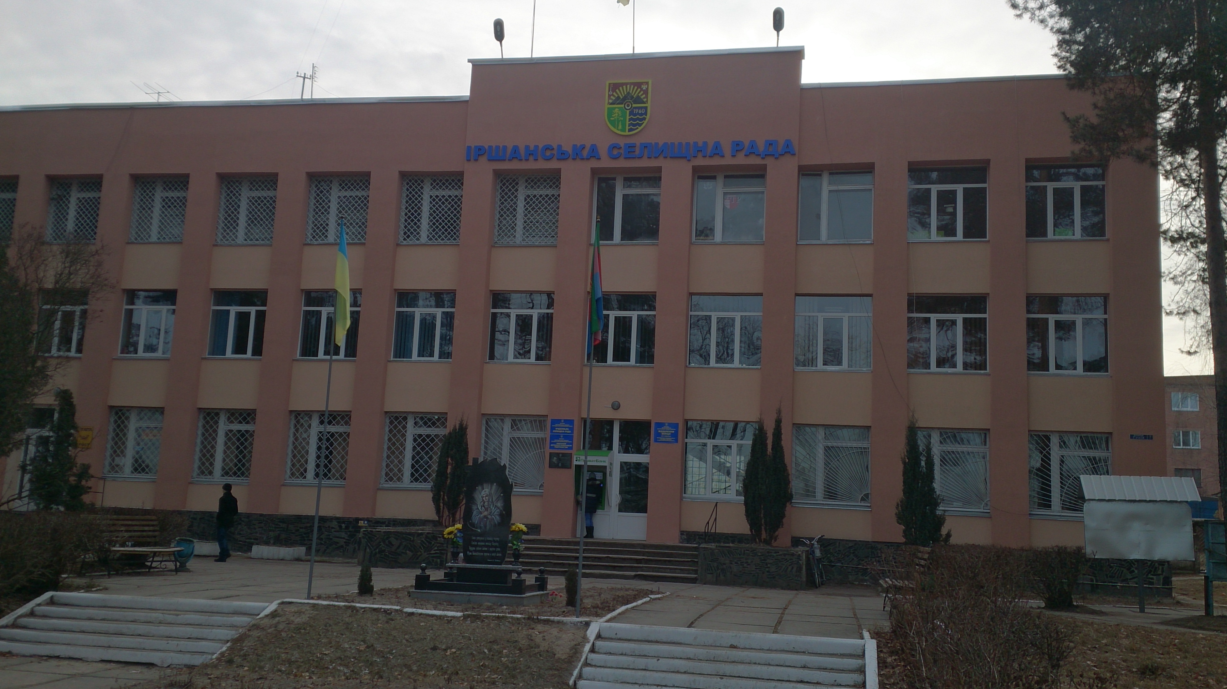 Irshansk Town Council building in December 2014